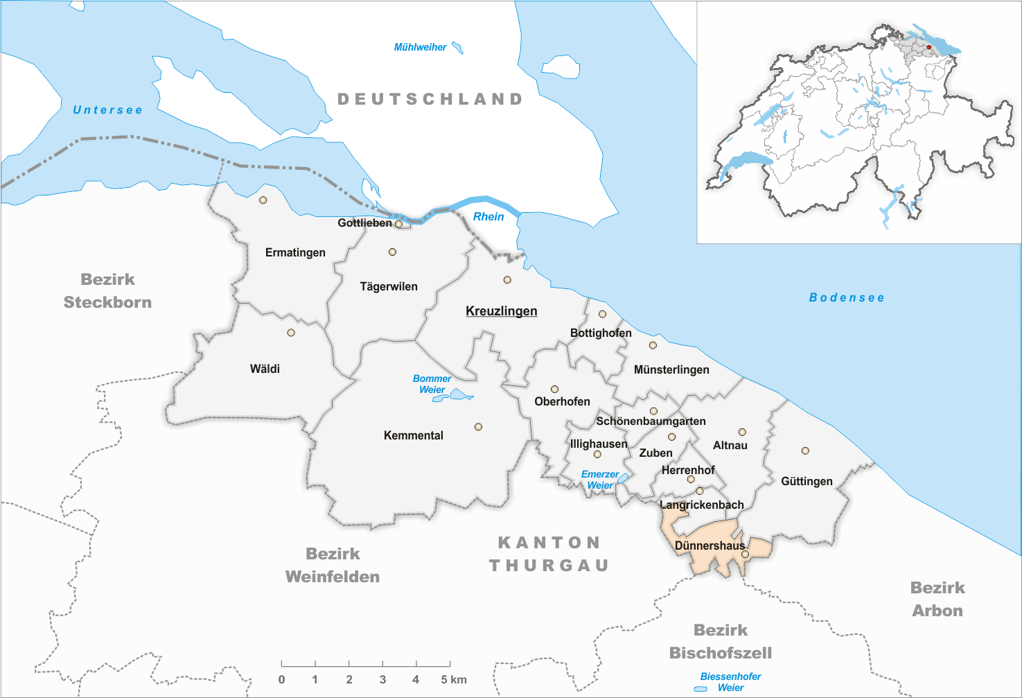 Municipality Dünnershaus